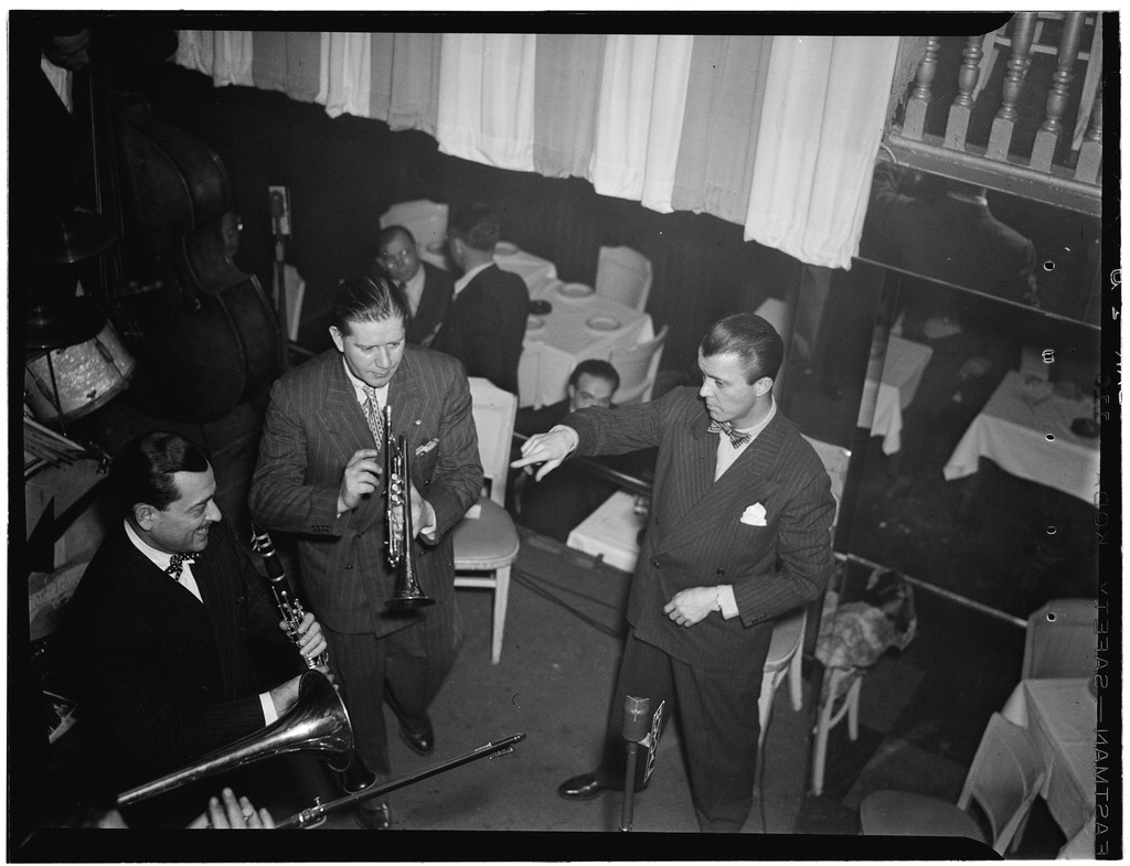 Gottlieb, William P., 1917-, photographer. [Portrait of Tony Parenti, Wild Bill Davison, and Eddie Condon, Eddie Condon's, New York, N.Y., ca. June 1946] 1 negative : b&w ; 3 1/4 x 4 1/4 in. Notes: Gottlieb Collection Assignment No. 090 Reference print available in Music Division, Library of Congress. Purchase William P. Gottlieb Forms part of: William P. Gottlieb Collection (Library of Congress). Subjects: Parenti, Tony, 1900-1972 Davison, Wild Bill, 1906- Condon, Eddie, 1905-1973 Jazz musicians--1940-1950. Guitarists--1940-1950. Clarinetists--1940-1950. Trumpet players--1940-1950. Eddie Condon's Format: Portrait photographs--1940-1950. Cityscape photographs--1940-1950. Film negatives--1940-1950. Rights Info: Mr. Gottlieb has dedicated these works to the public domain, but rights of privacy and publicity may apply. Repository: (negative) Library of Congress, Prints & Photographs Division, Washington D.C. 20540 USA, (reference print) Library of Congress, Music Division, Washington D.C. 20540 USA, Part Of: William P. Gottlieb Collection (DLC) 99-401005 General information about the Gottlieb Collection is available at Persistent URL: Call Number: LC-GLB13- 0168 This work is from the William P. Gottlieb collection at the Library of Congress. Rights and restrictions.In accordance with the wishes of William Gottlieb, the photographs in this collection entered into the public domain on February 16, 2010.